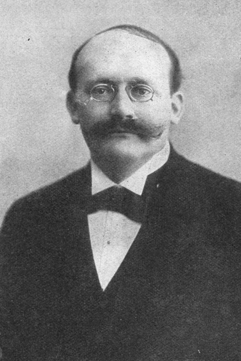 Bruno von Schuckmann was a german politician